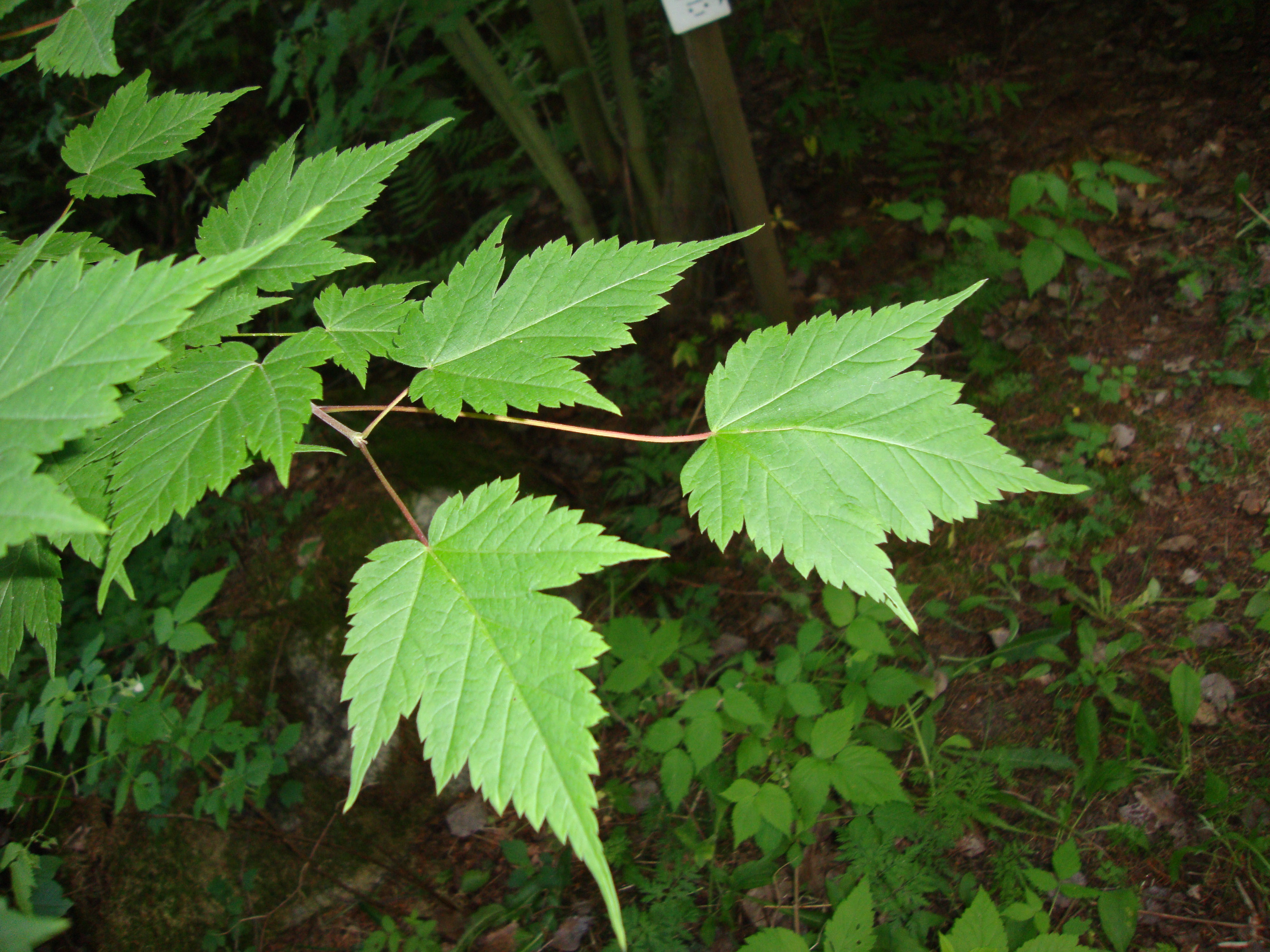 The foliage of Ussuri maple (Acer barbinerve) in Viikki Arboretum in Helsinki, Finland